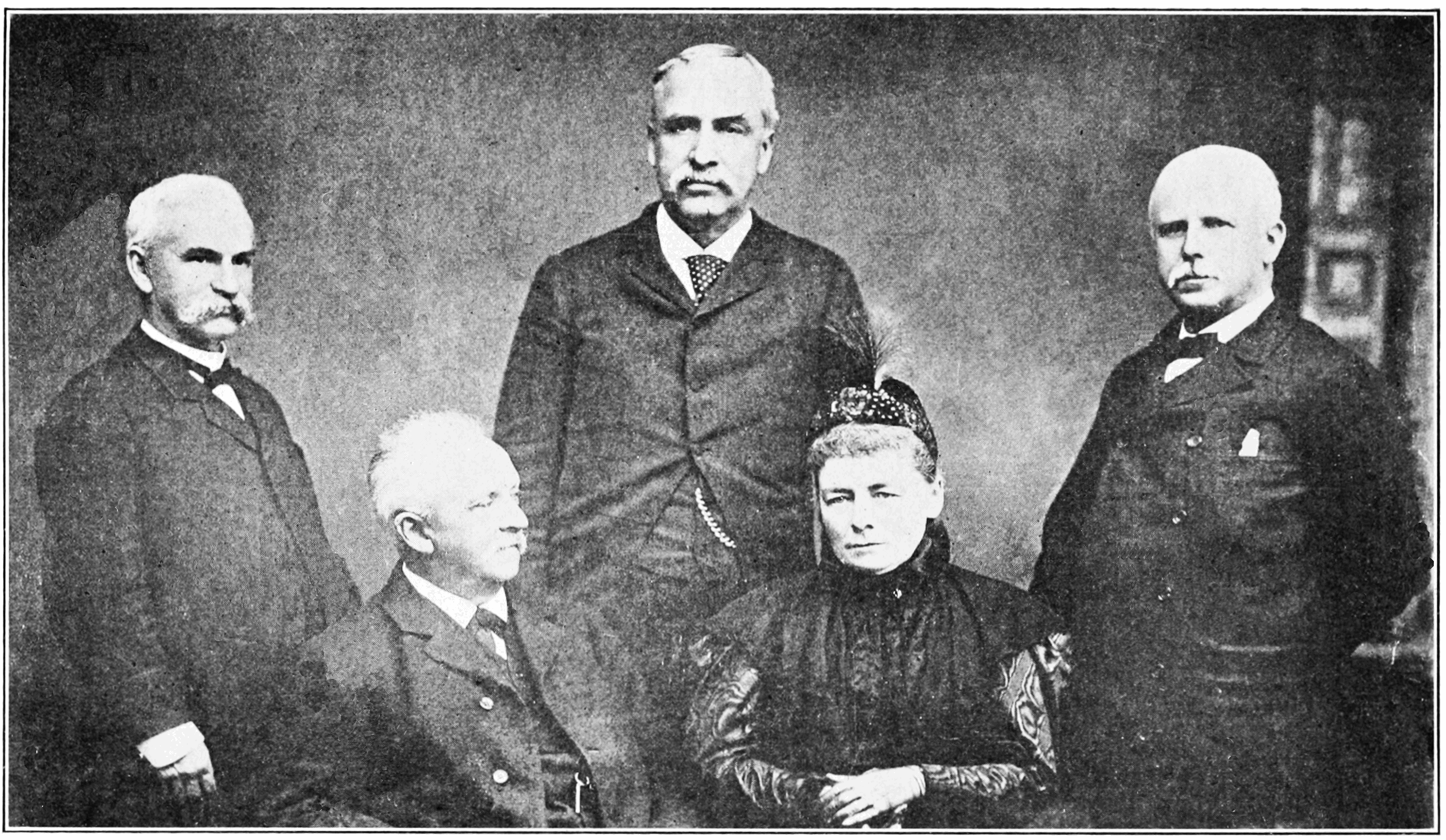 Group photograph of Hermann Helmholtz, his wife (seated) and academic friends Hugo Kronecker (left), Thomas C. Mendenhall (right), Henry Villard (center standing) Taken at the Mathew Brady Studio in New York City.